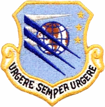 4228th Strategic Wing emblem. A copy of this emblem was downloaded from for use in my book “The Genealogy of the STRATEGIC AIR COMMAND” with the webmasters’ approval.